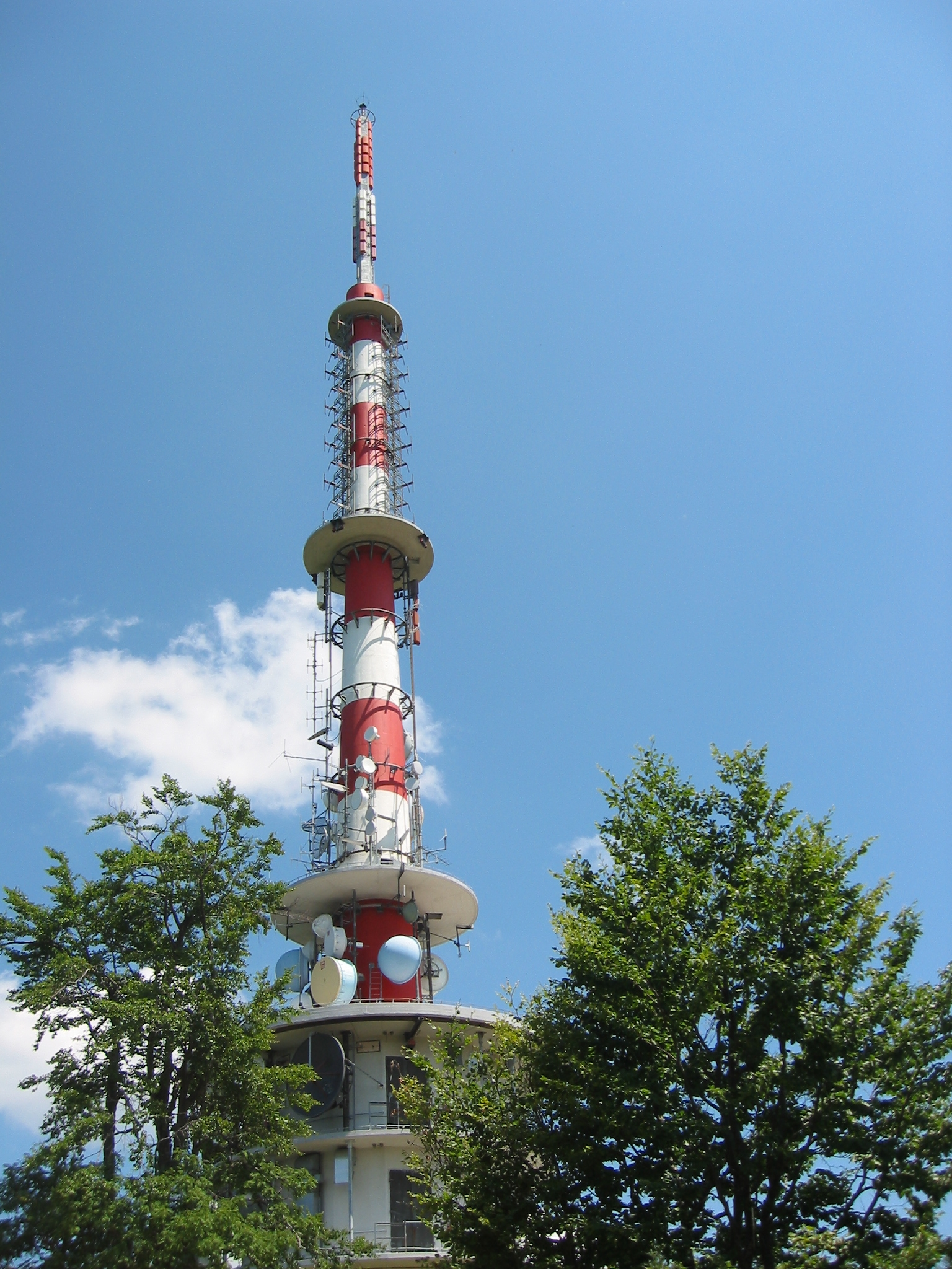 Trdinov vrh, telecommunication tower on Slovene side